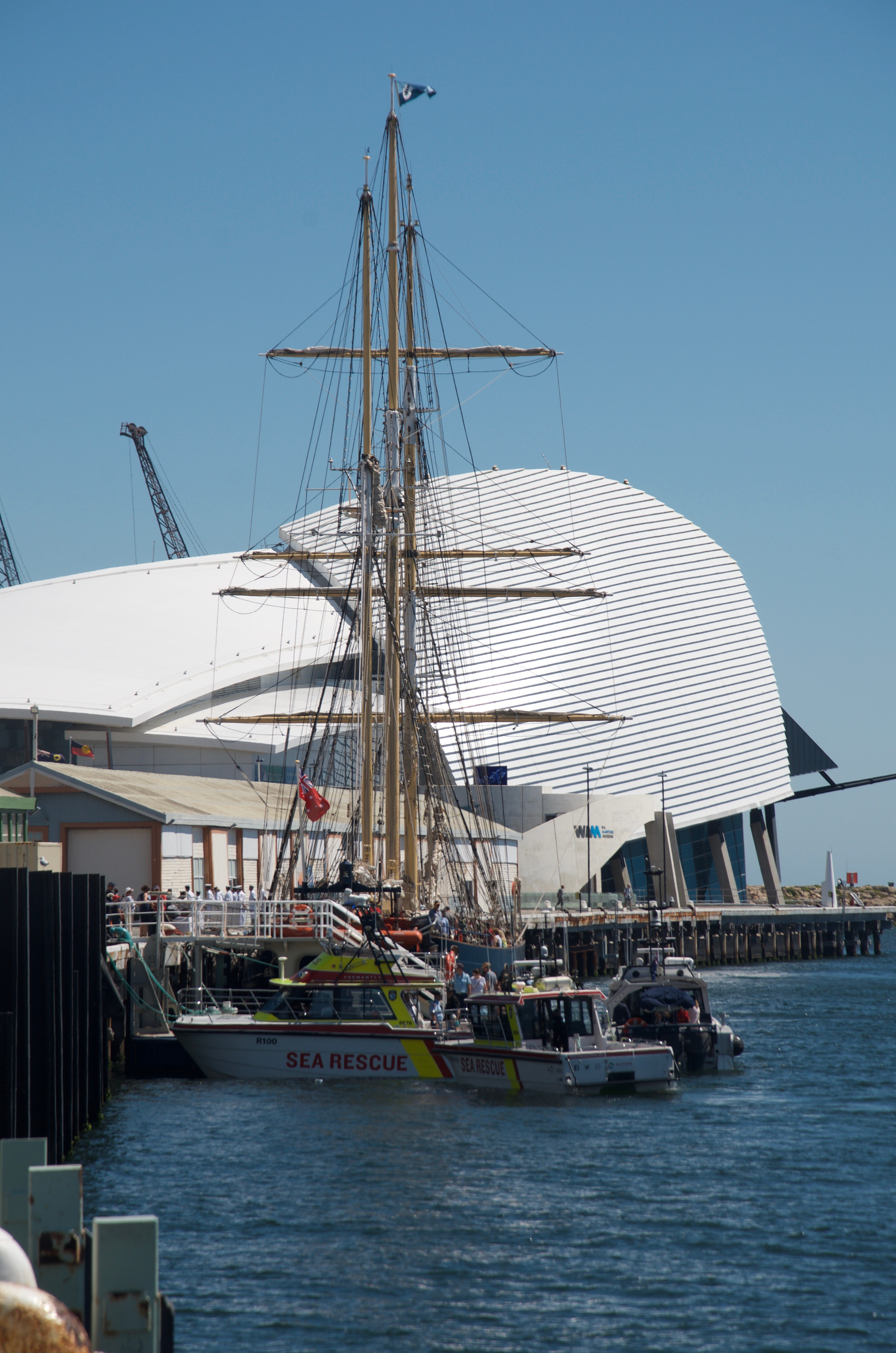 Leeuwin II and Fremantle maritime museum in back ground at Fremantle maritime day 2018